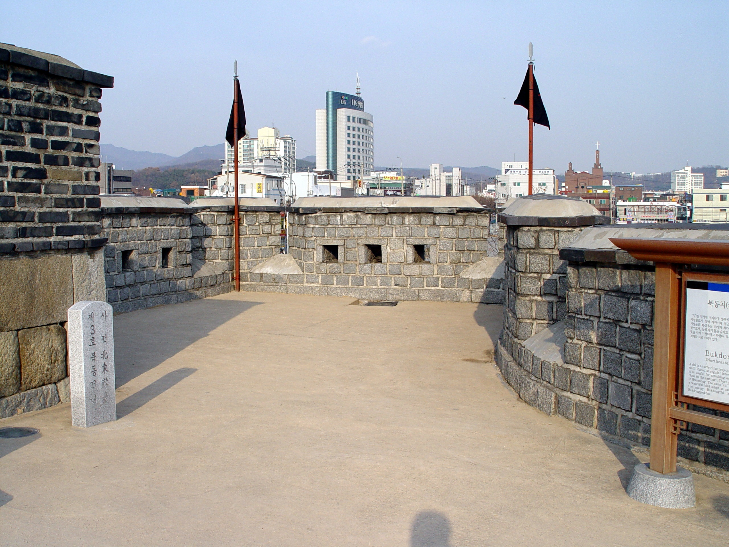 Bukdongchi, Hwaseong Fortress, Suwon, South Korea